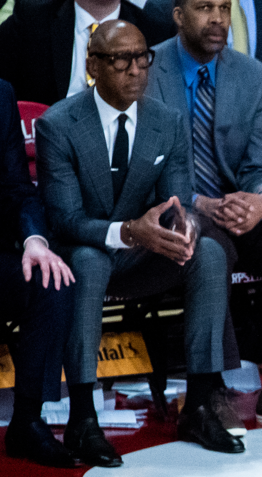 Kreiner shooting